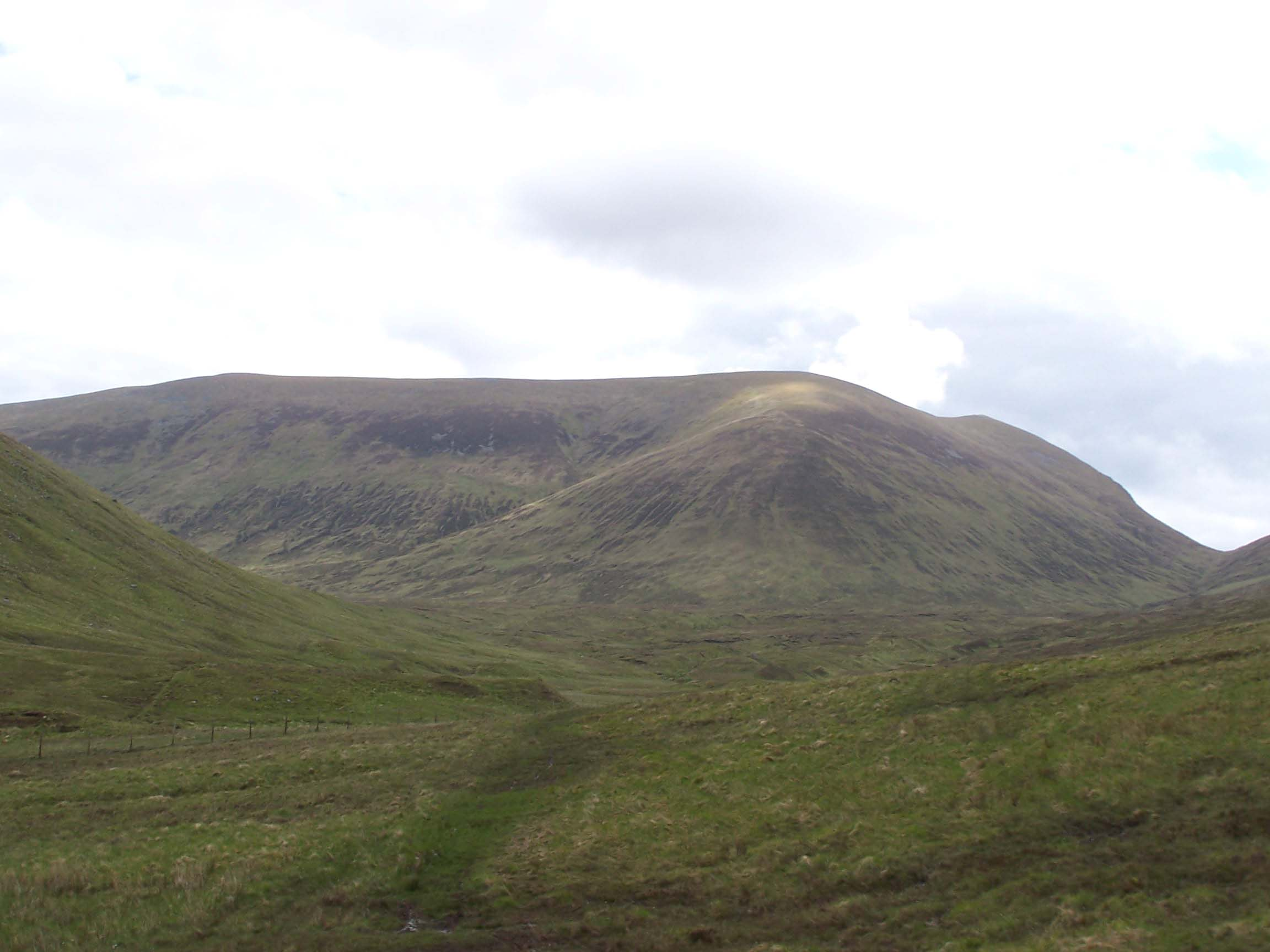 Personal picture taken by Mick Knapton